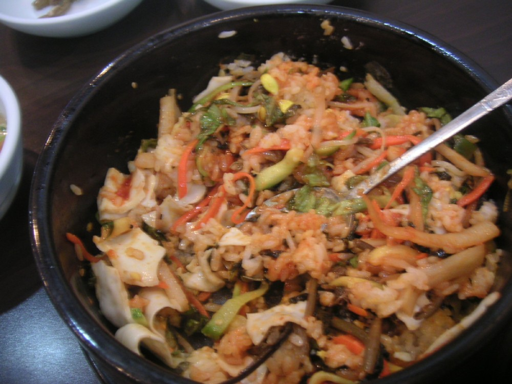 A bowl of already mixed 돌솥 비빔밥 (dolsot bibimbap)